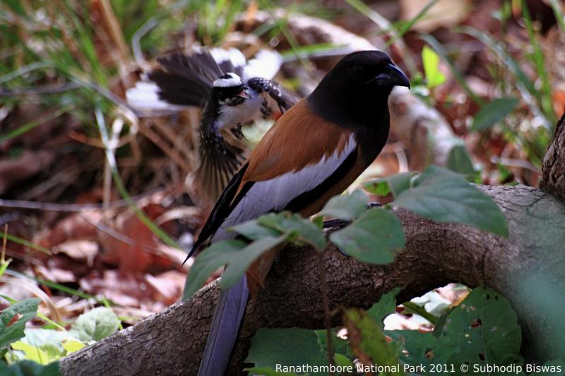 White Browed Fantail flycatcher attacks a Rofous Treepie at Ranthambore National Park